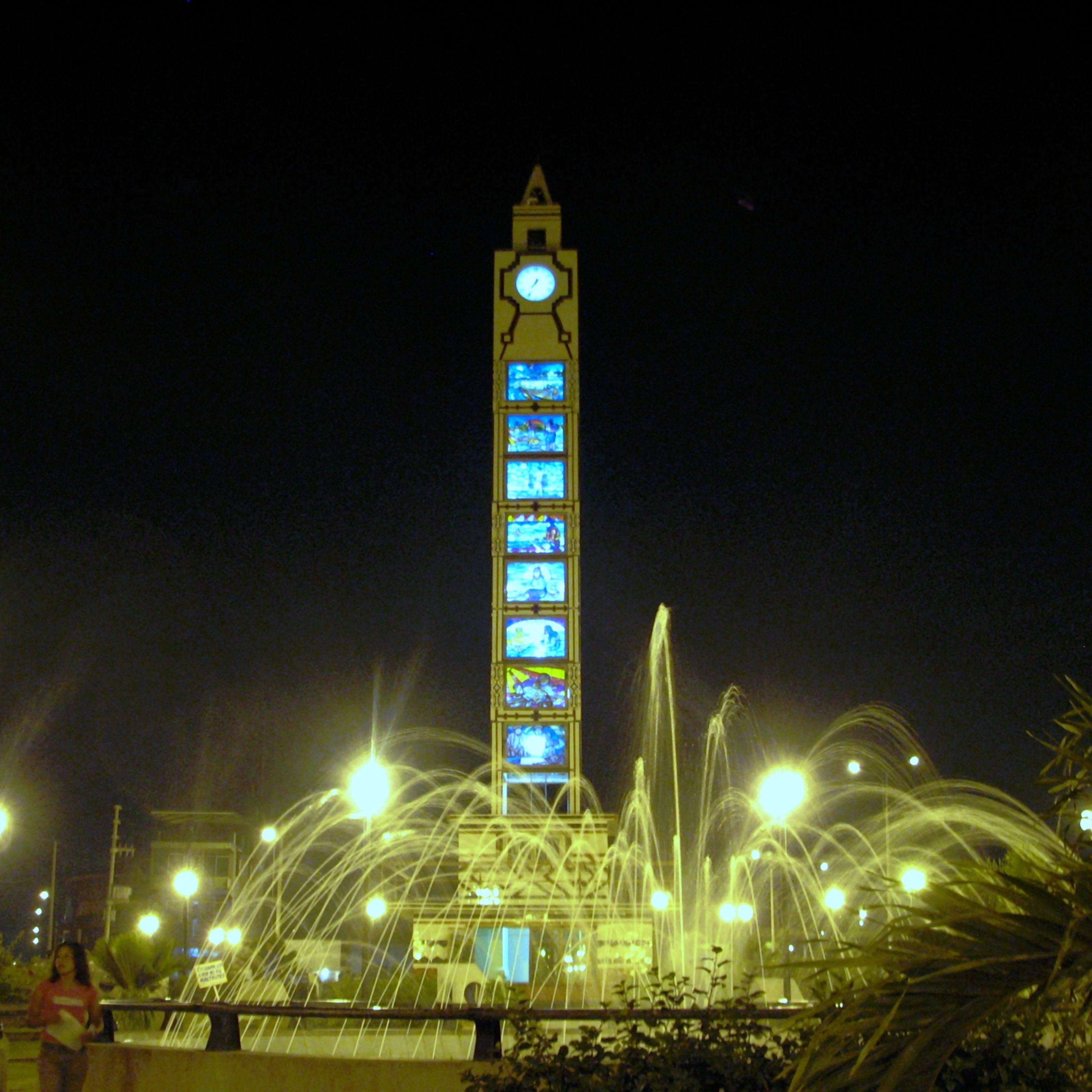 Fountain and clock tower by night on Plaza San Martín — in Pucallpa—Coronel Portillo/Ucayali, Peru.